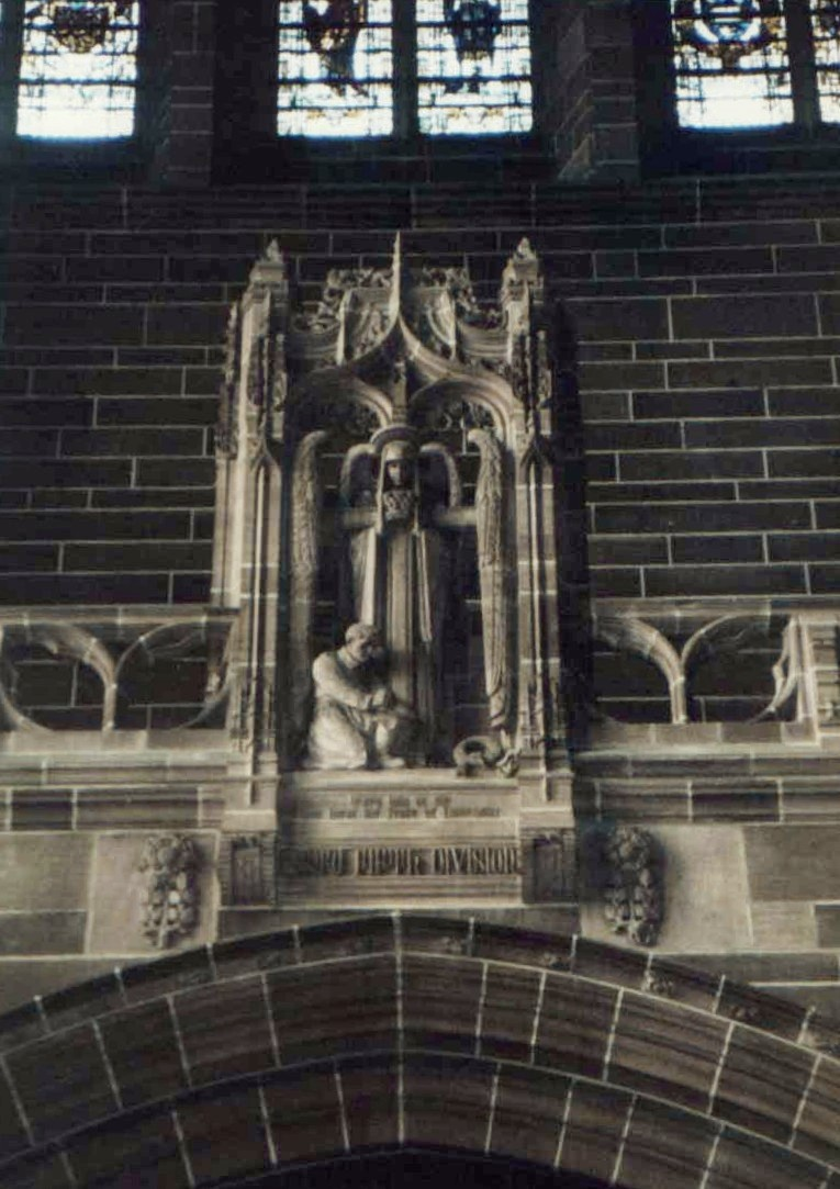 55th Division War Memorial, South Chapel, Liverpool Anglican Cathedral. 1926. Work by Walter Gilbert in association with H. H. Martyn of Cheltenham. This photo shows the memorial in situ.